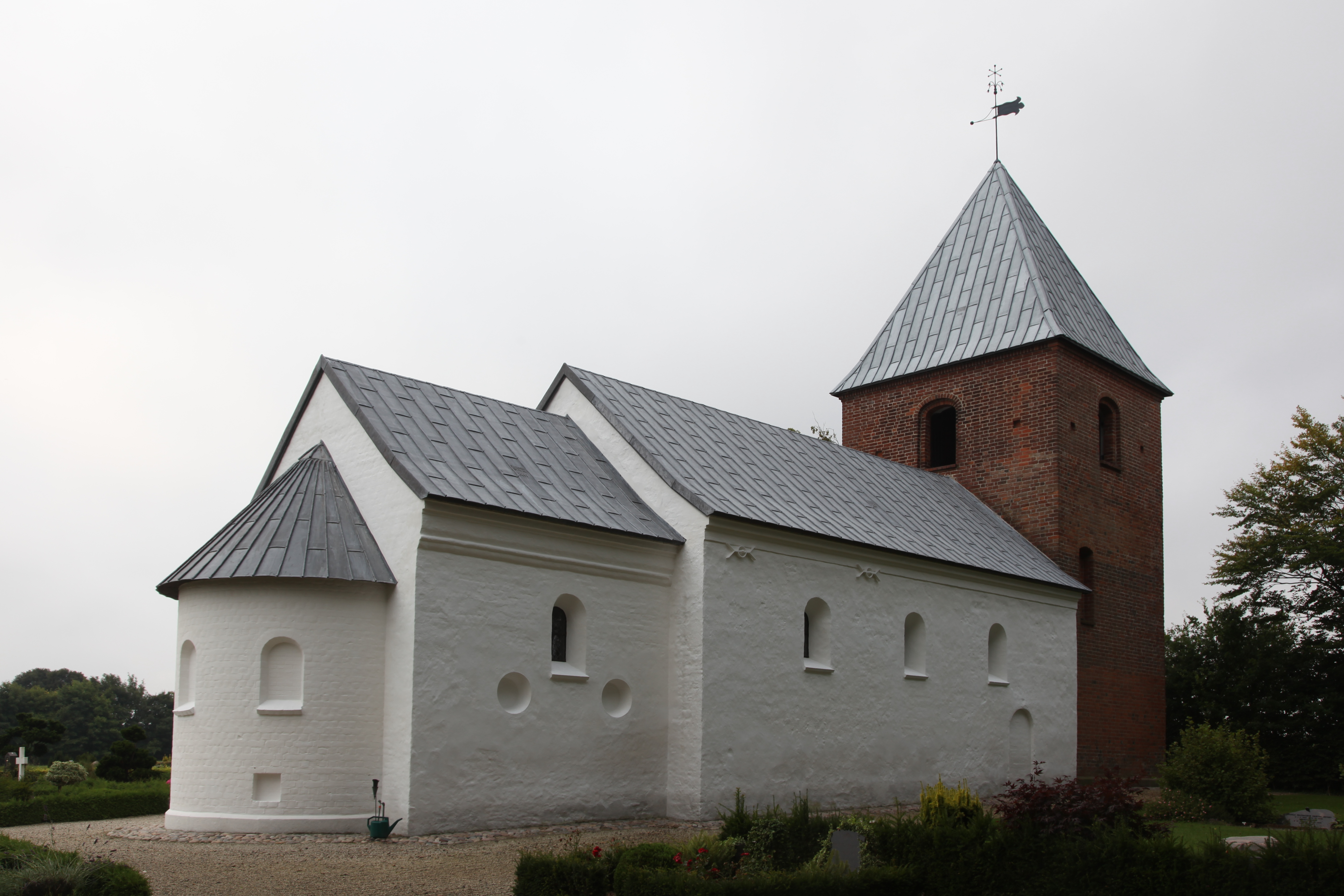 Skivholme Kirke, Denmark